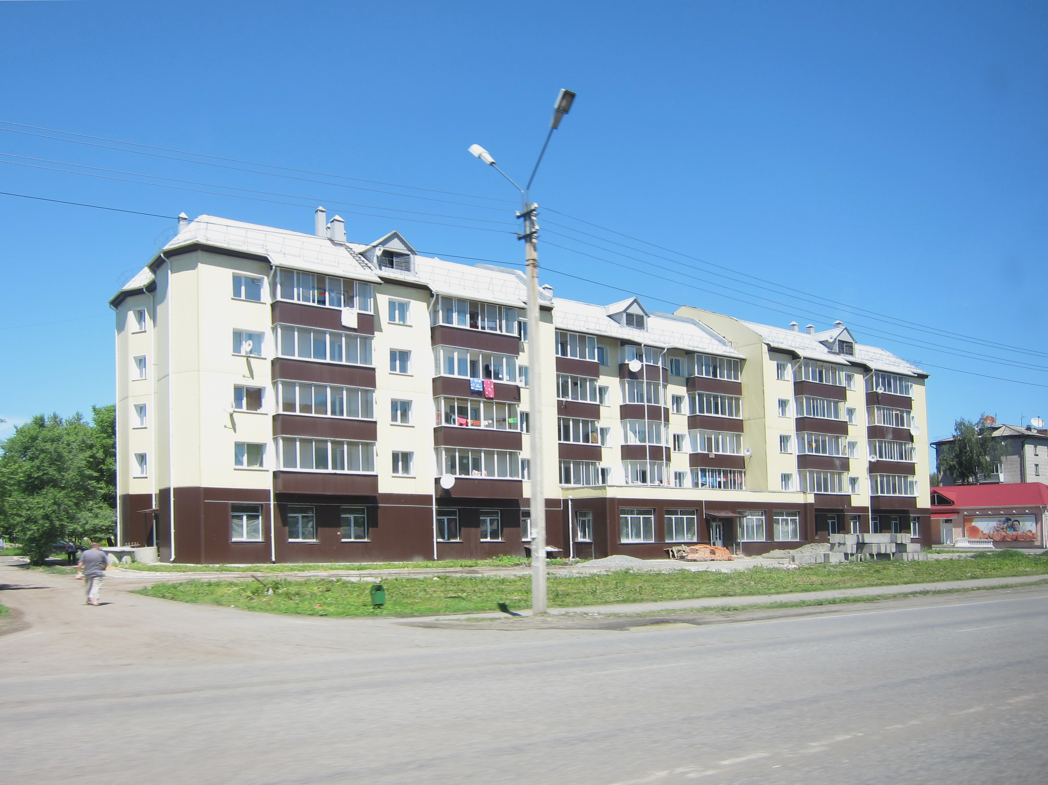 House in Mayma settlement, Altai Republic, Russia